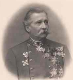 gen. broni Daniel Salis Soglio